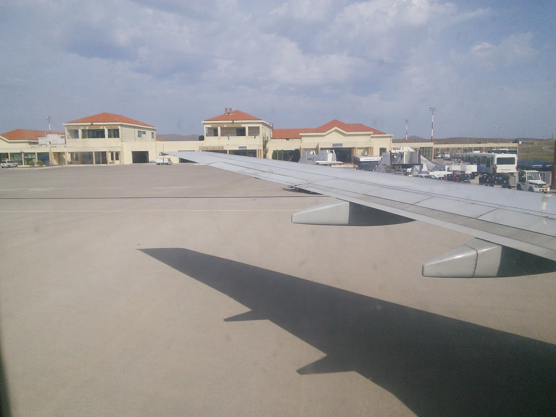 View on the Limnos airport from a Boeing 737-700 cabin